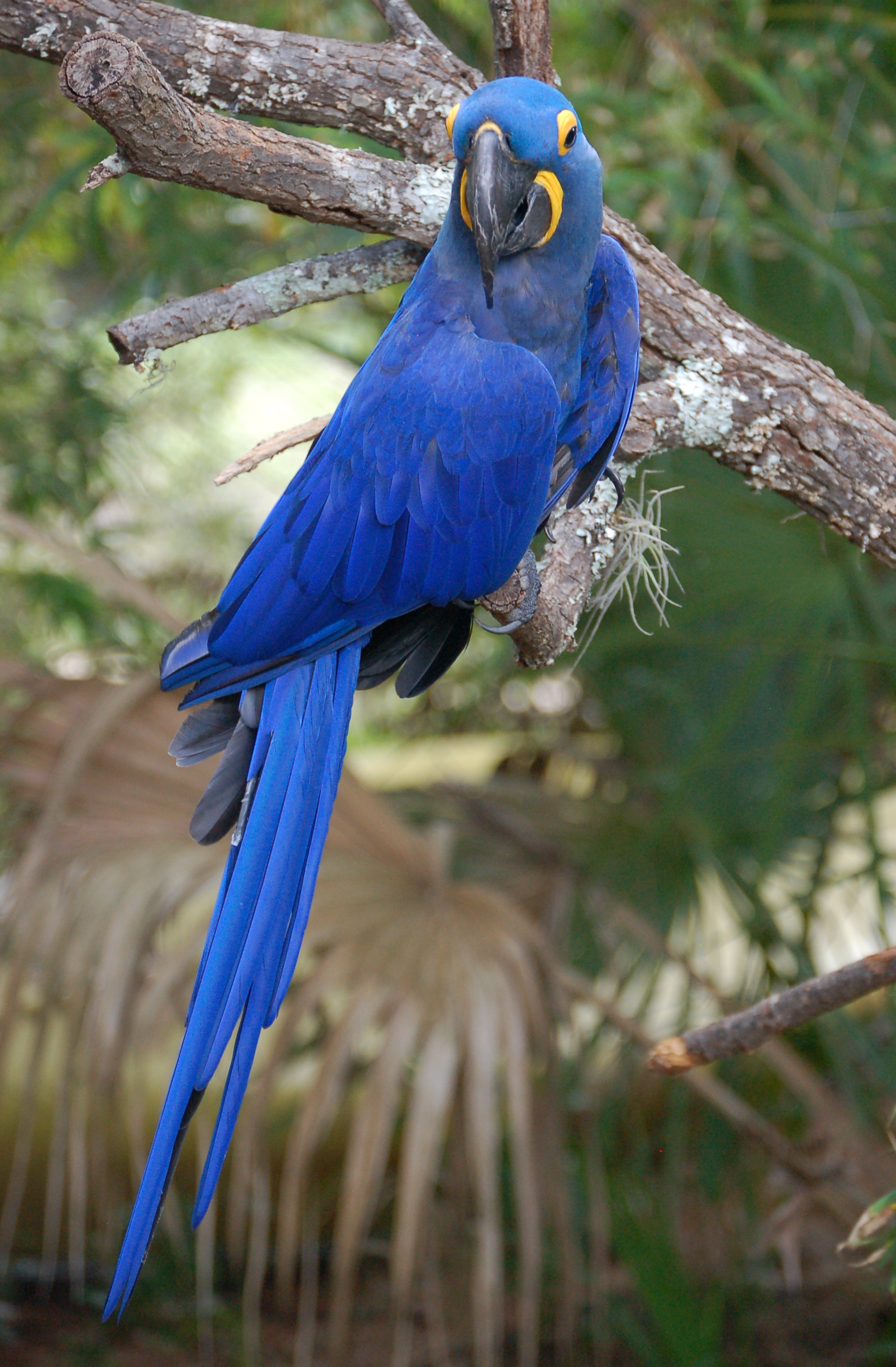 Hyacinth Macaw (Anodorhynchus hyacinthinus) or Hyacinthine Macaw at Melbourne Zoo, Australia.